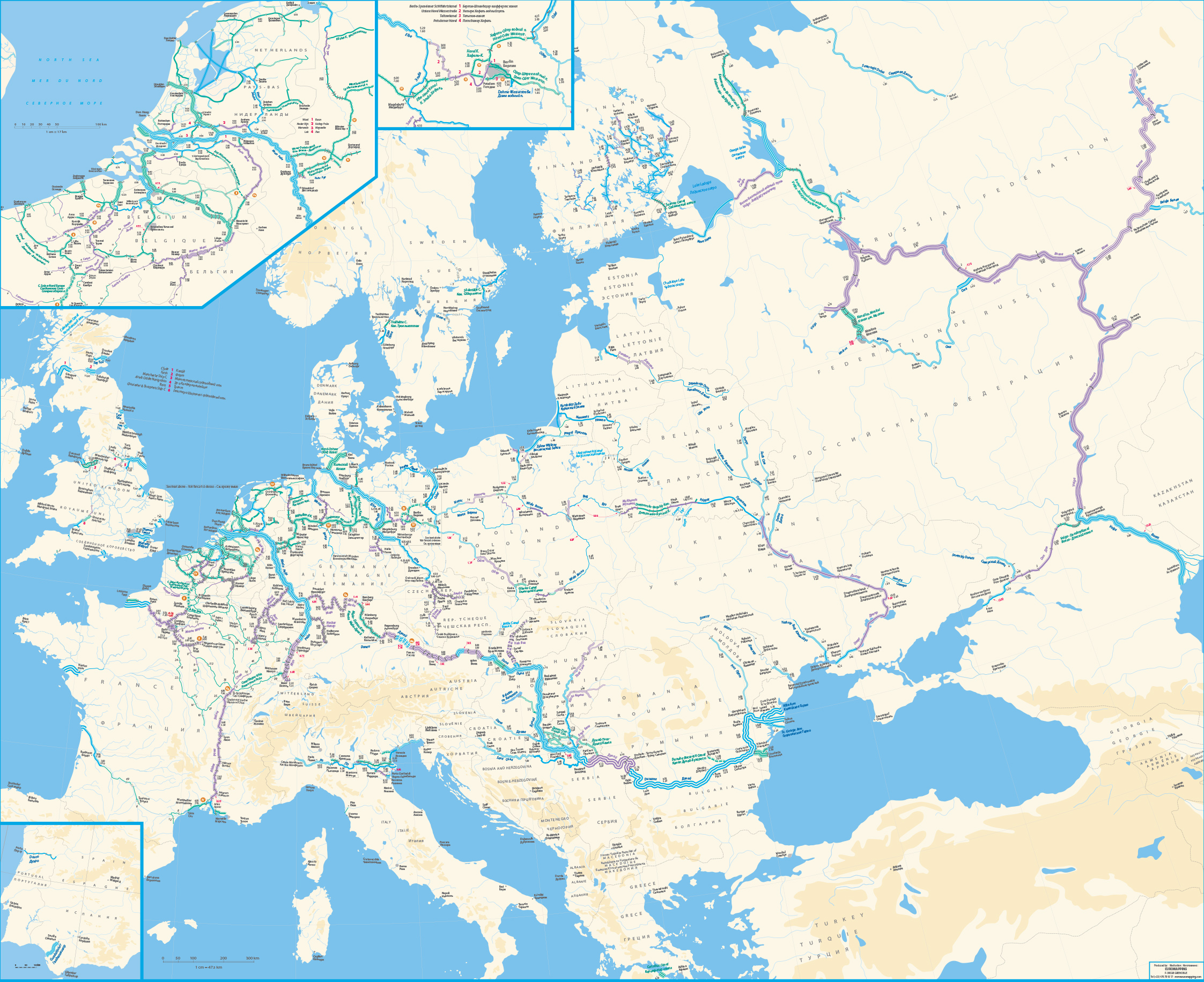 The UNECE Map of European Inland Waterways, with permission from the Secretariat of the Working Party on Inland Water Transport, a committee of the Sustainable Transport Division